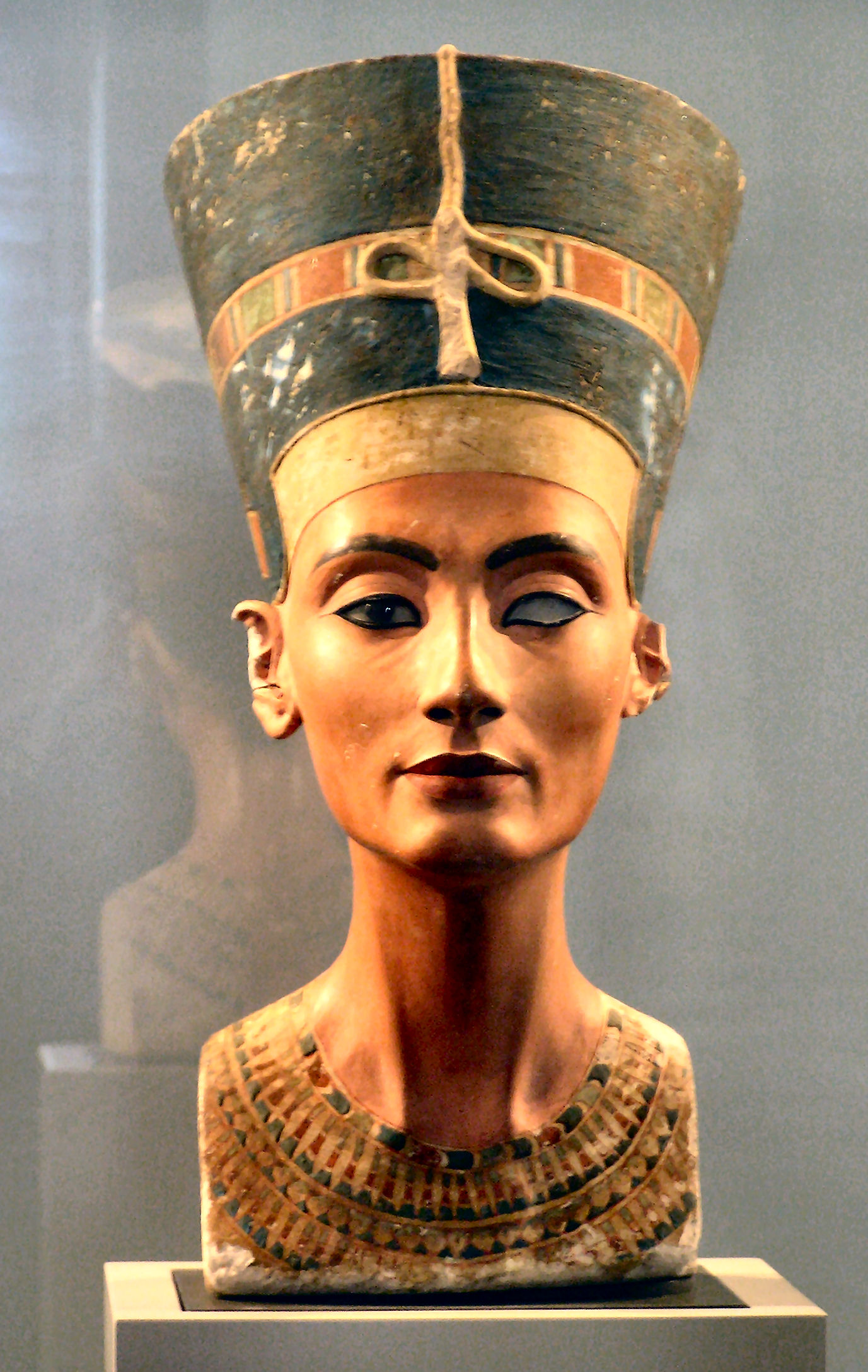 Nefertiti